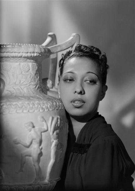 Studio photo